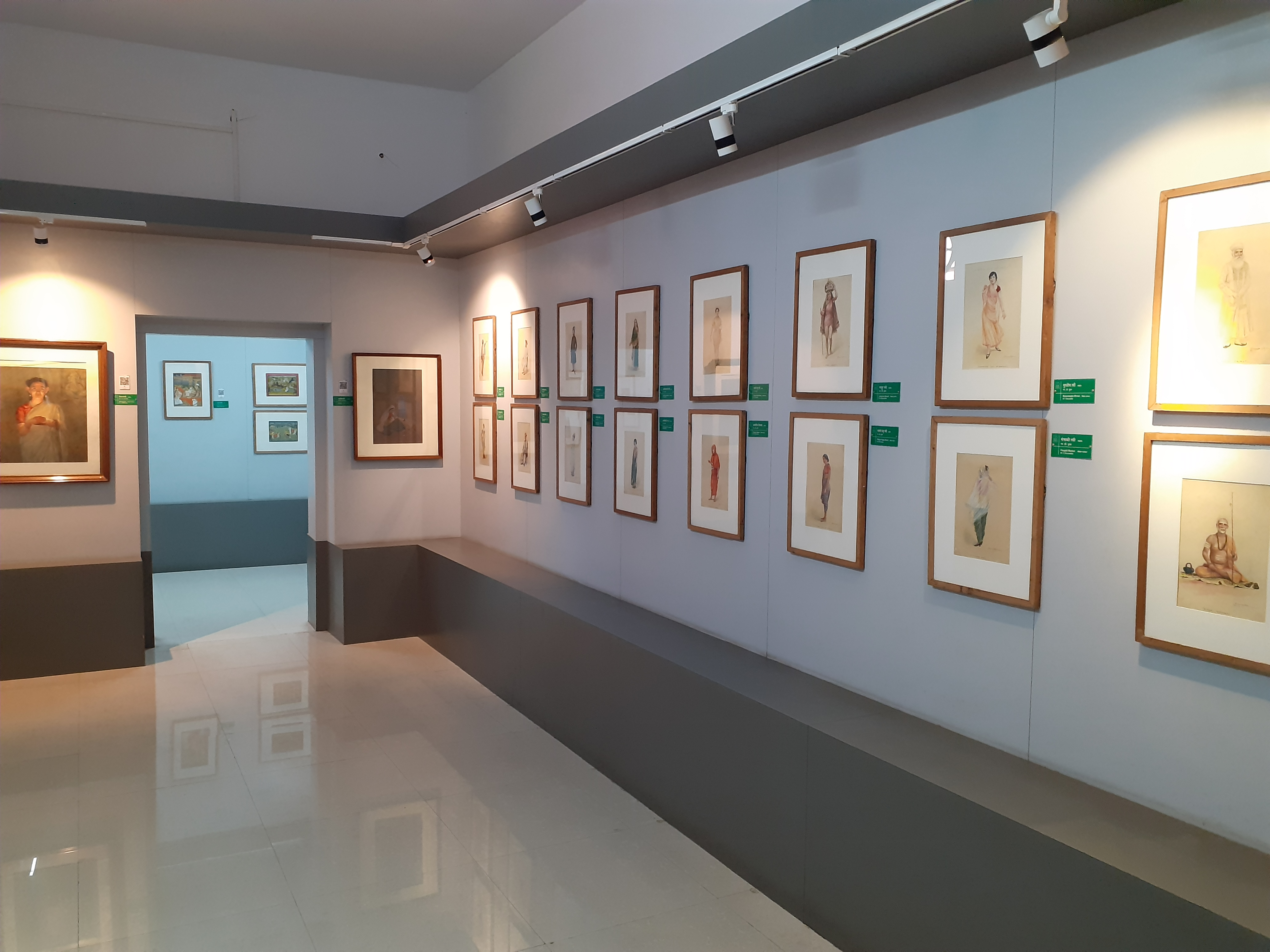 Nagpur Central Museum, Painting Gallery, Oct 2019